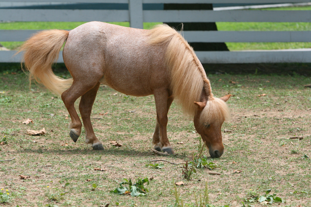 Beautiful Little Roan Miniature Horse at the Kentucky Horse park